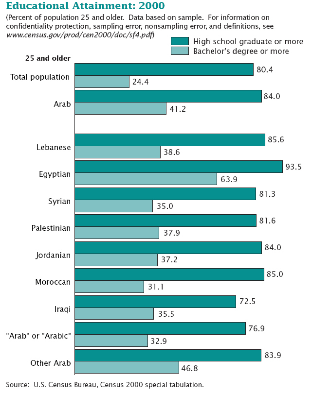 Education rates comparing the US population and the Arab American population